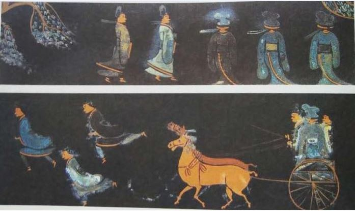 Lacquer painting from State of Ch'u (704–223 B.C.) , buried in about BCE 316 中文（香港）: 荊門楚墓出土夾紵胎漆奩上之漆畫，內容來歷有「楚國車馬出行」一説，但有學者從人物動作、衣飾分析，認爲是描寫「聘禮行迎」，或稱「王孫親迎圖」。